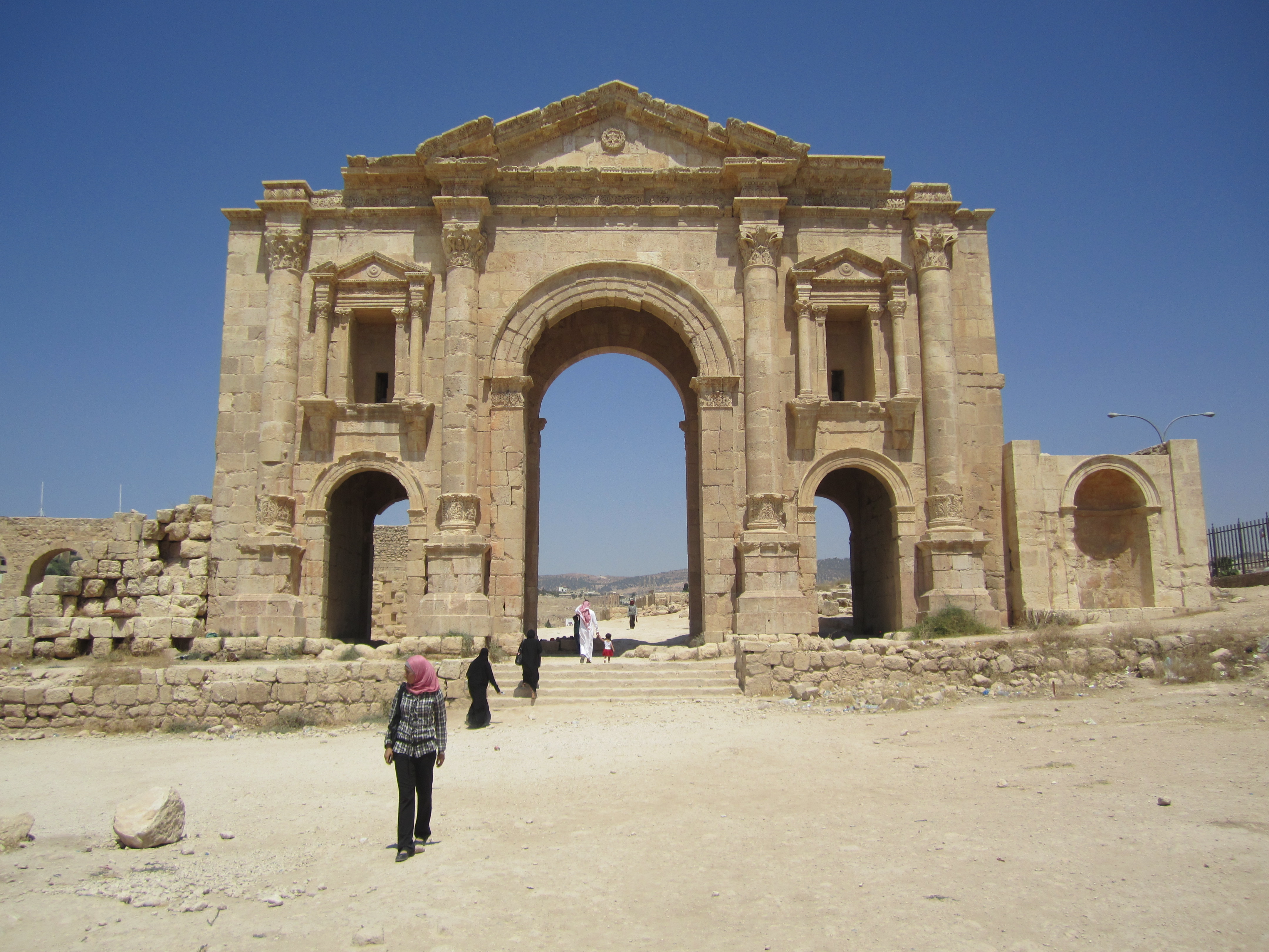 Hadrian's arch, Jerash, Jordan, in 2011 after restoration.